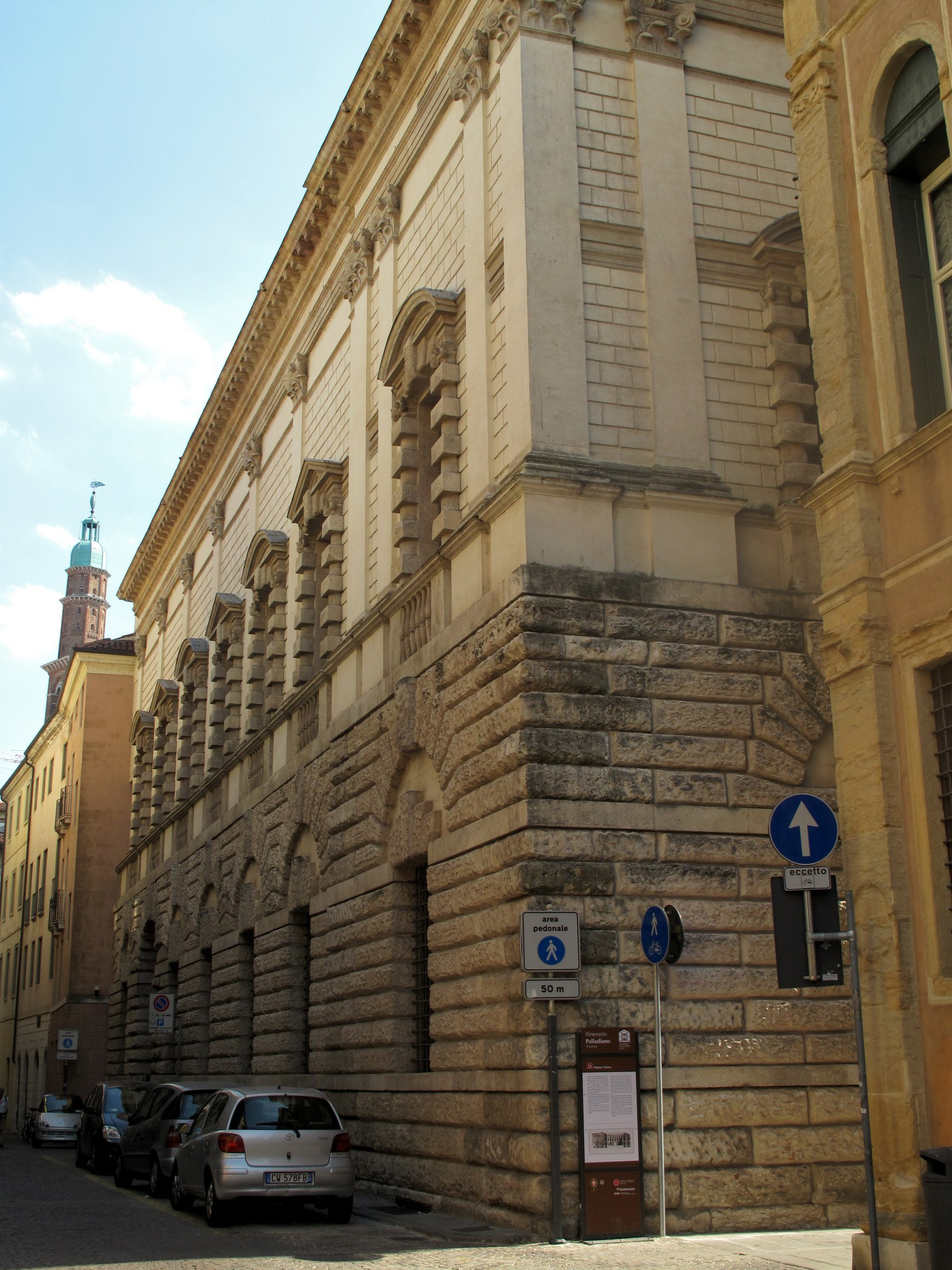 Palazzo Thiene, Vicenza. Contra S Gaetano Thiene/Stradella Banca Popolare